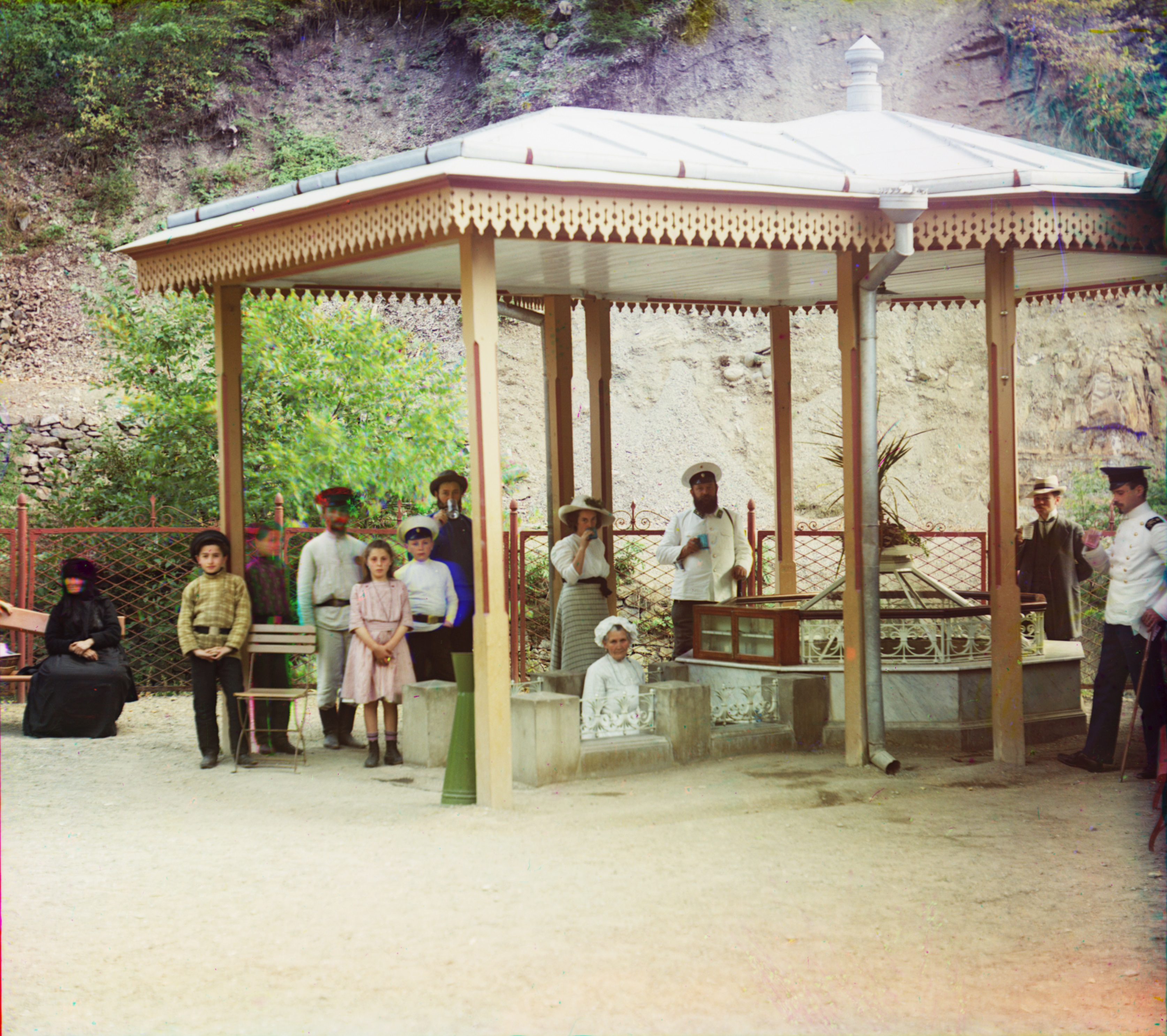 Evgeniev spring. Borzhom (Borjomi).